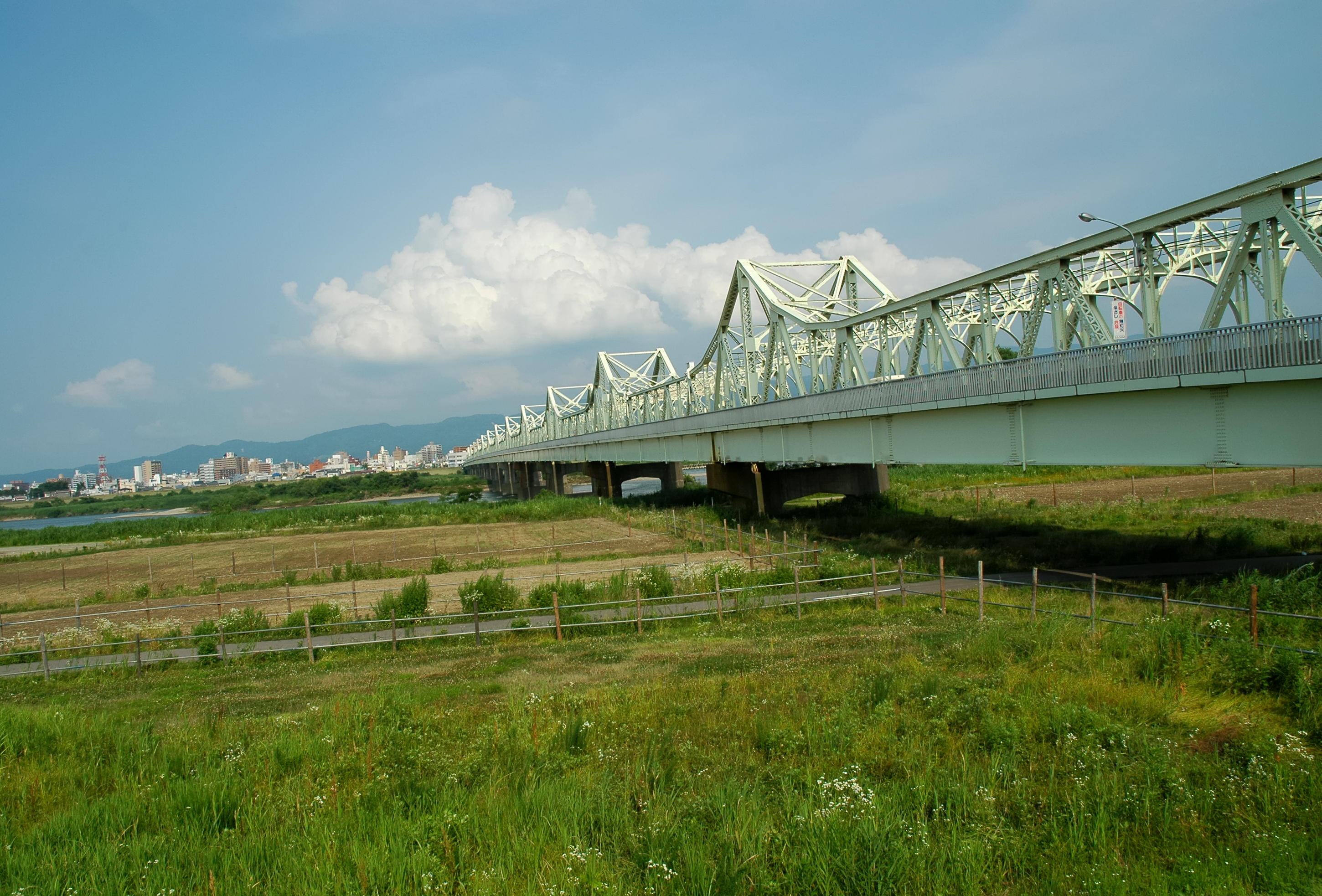 Chosei Bridge (長生橋, 新潟県長岡市)